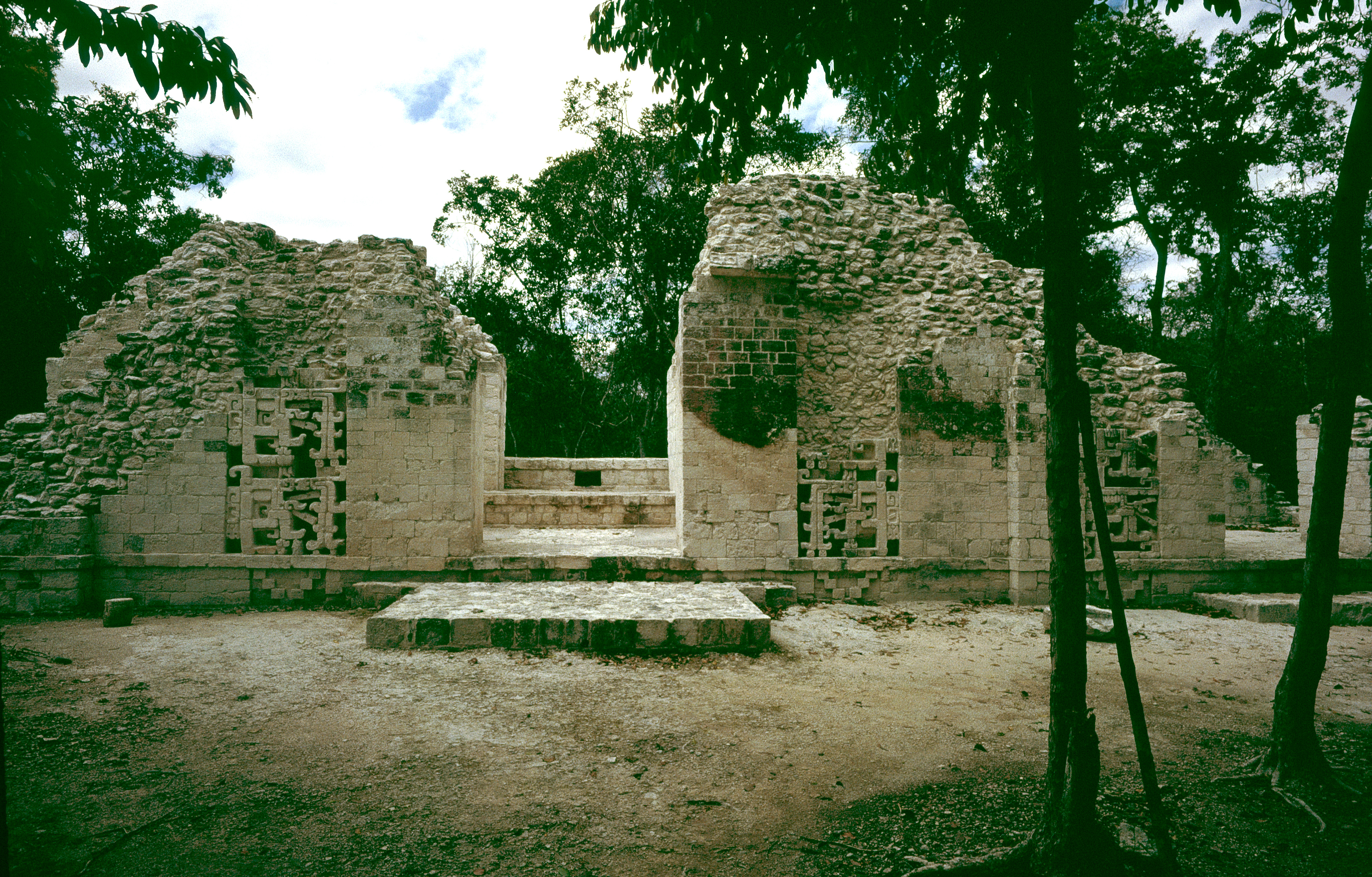 Chicanna, Campeche, Mexico: Structure X